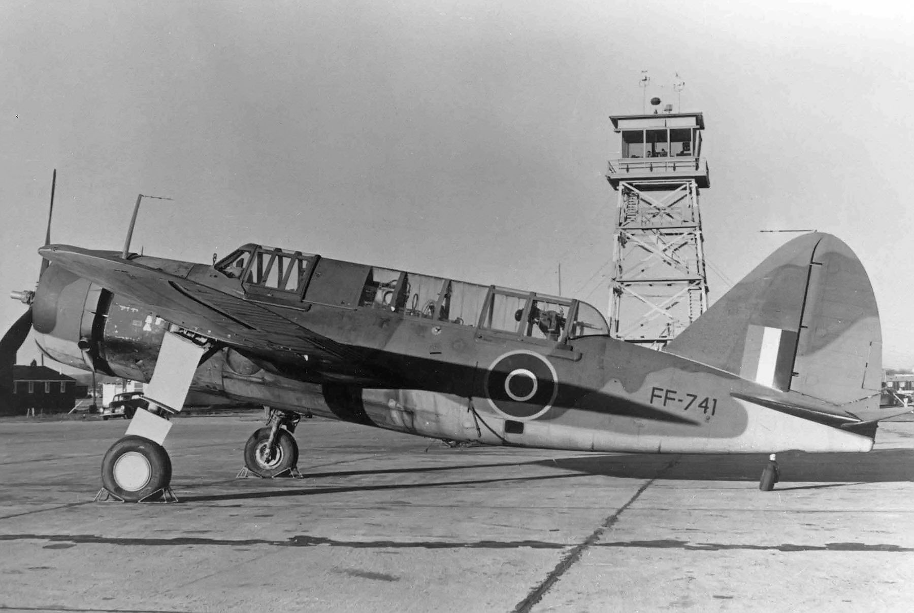 A Royal Air Force Brewster Bermuda I (s/n FF741), or Brewster A-34/Model B-340E.